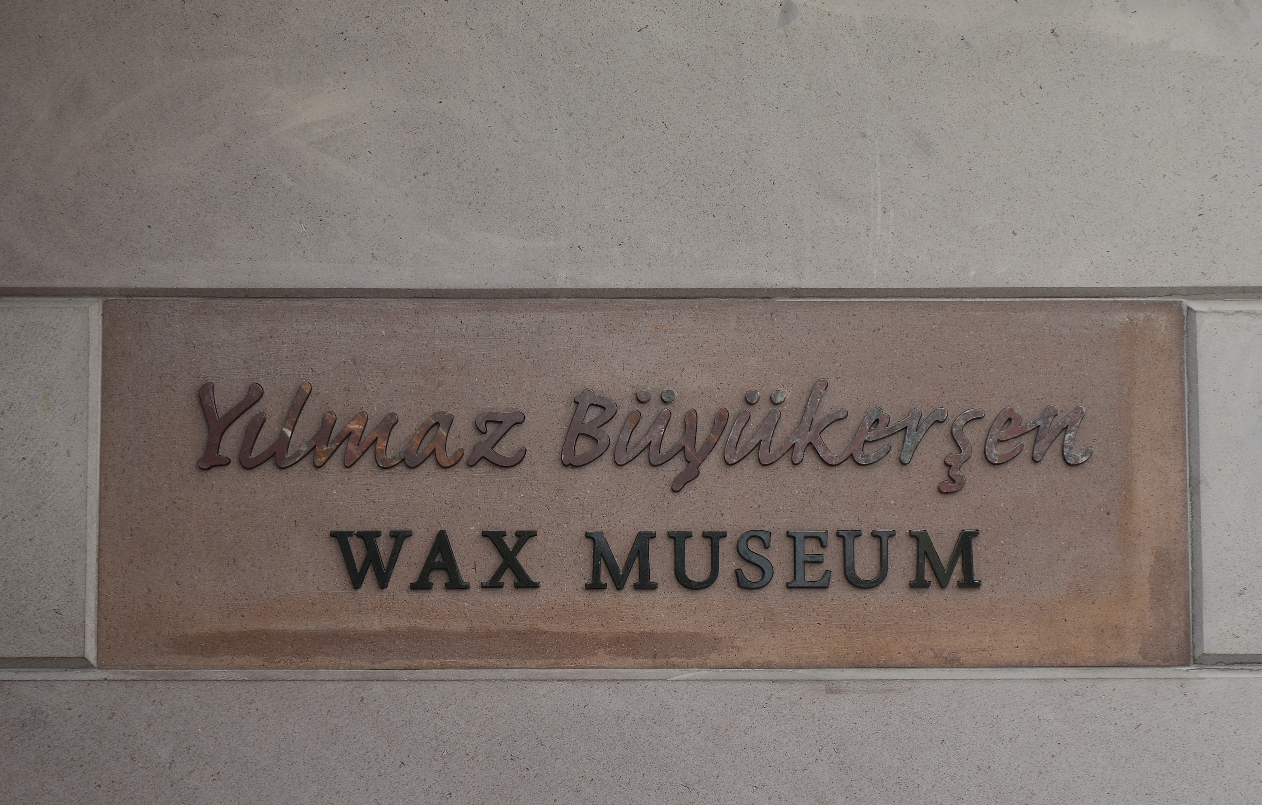 Yılmaz Büyükerşen Wax Musuem in Odunpazarı, Eskişehir, Turkey